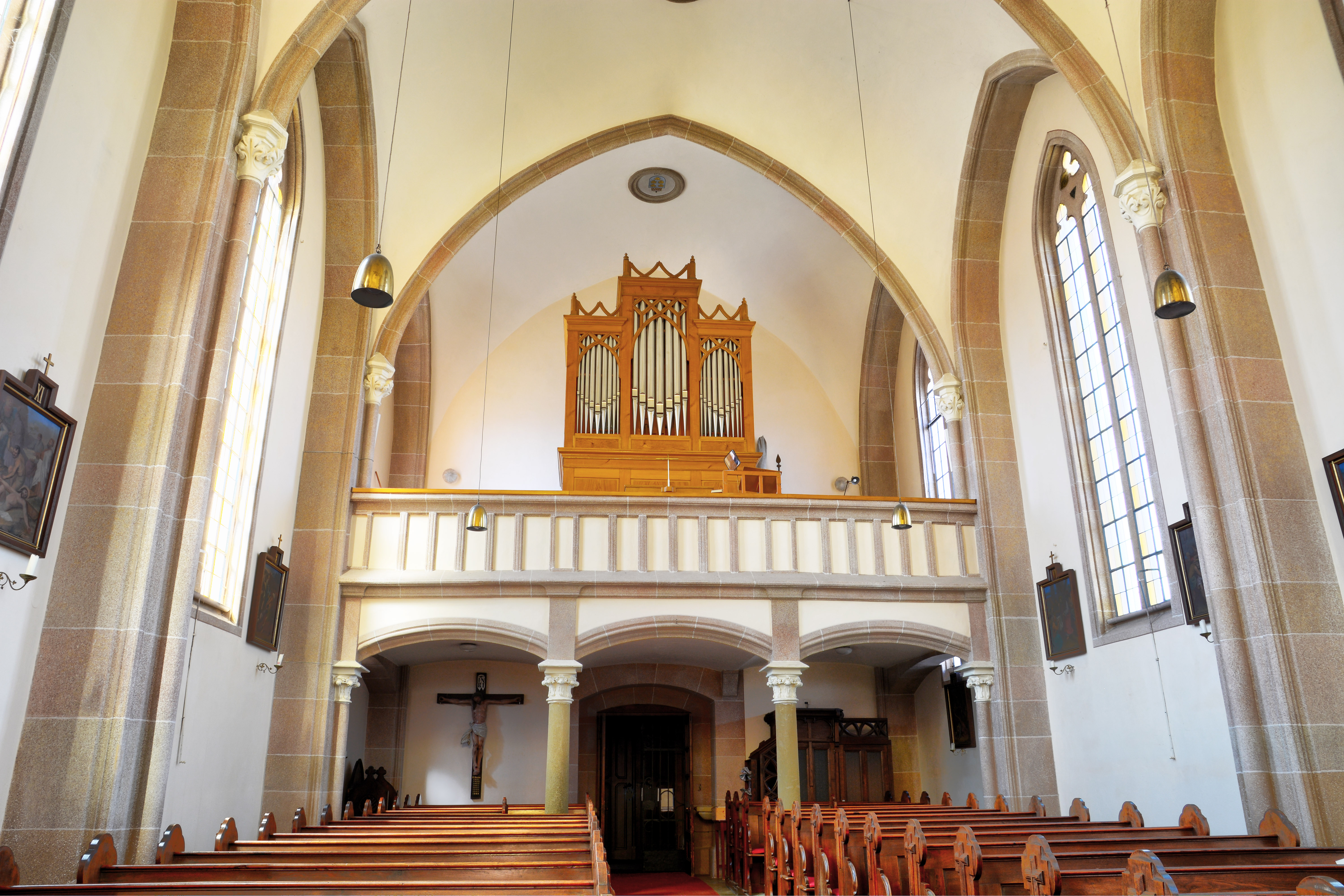 Organ loft in the catholic parish church at Siebenhirten, Municipality Mistelbach, Lower Austria, Austria